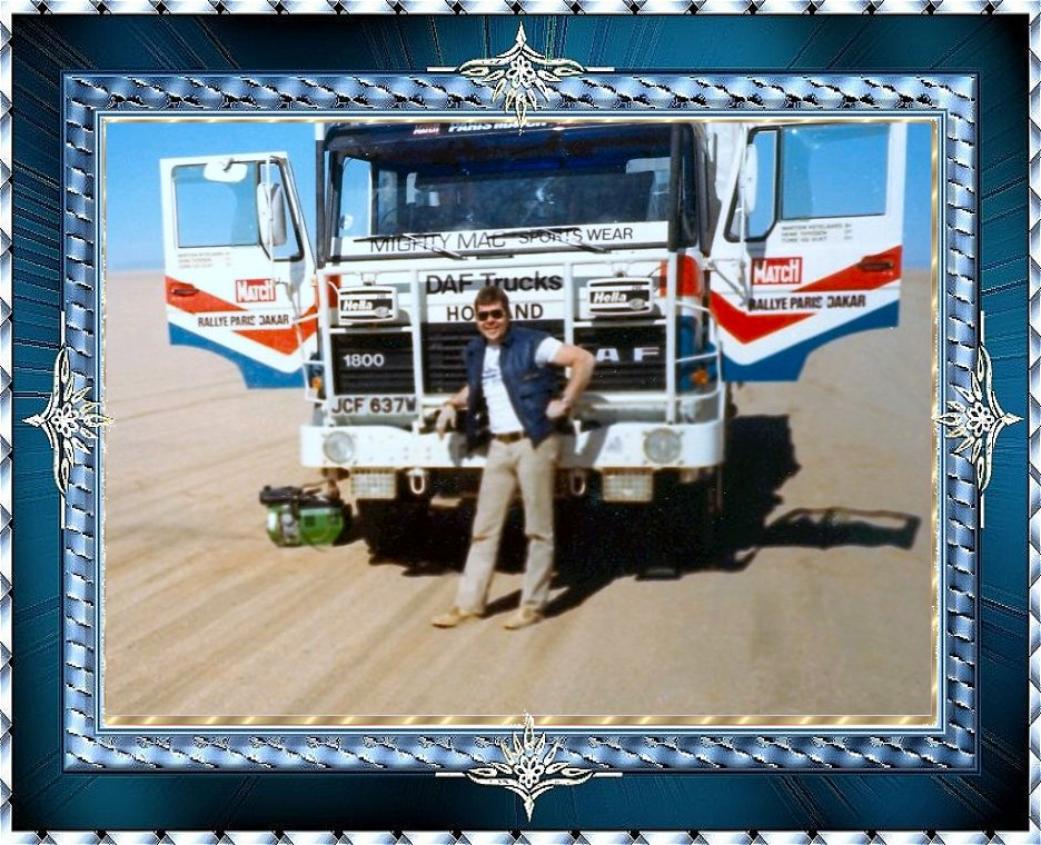 This is been taken ad the end of the tour januari 1981